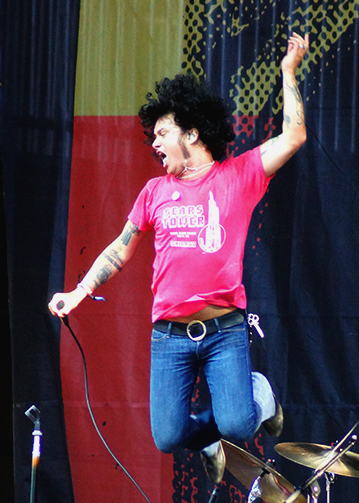 This file was derived from: At the Drive-In Lollapalooza.jpg